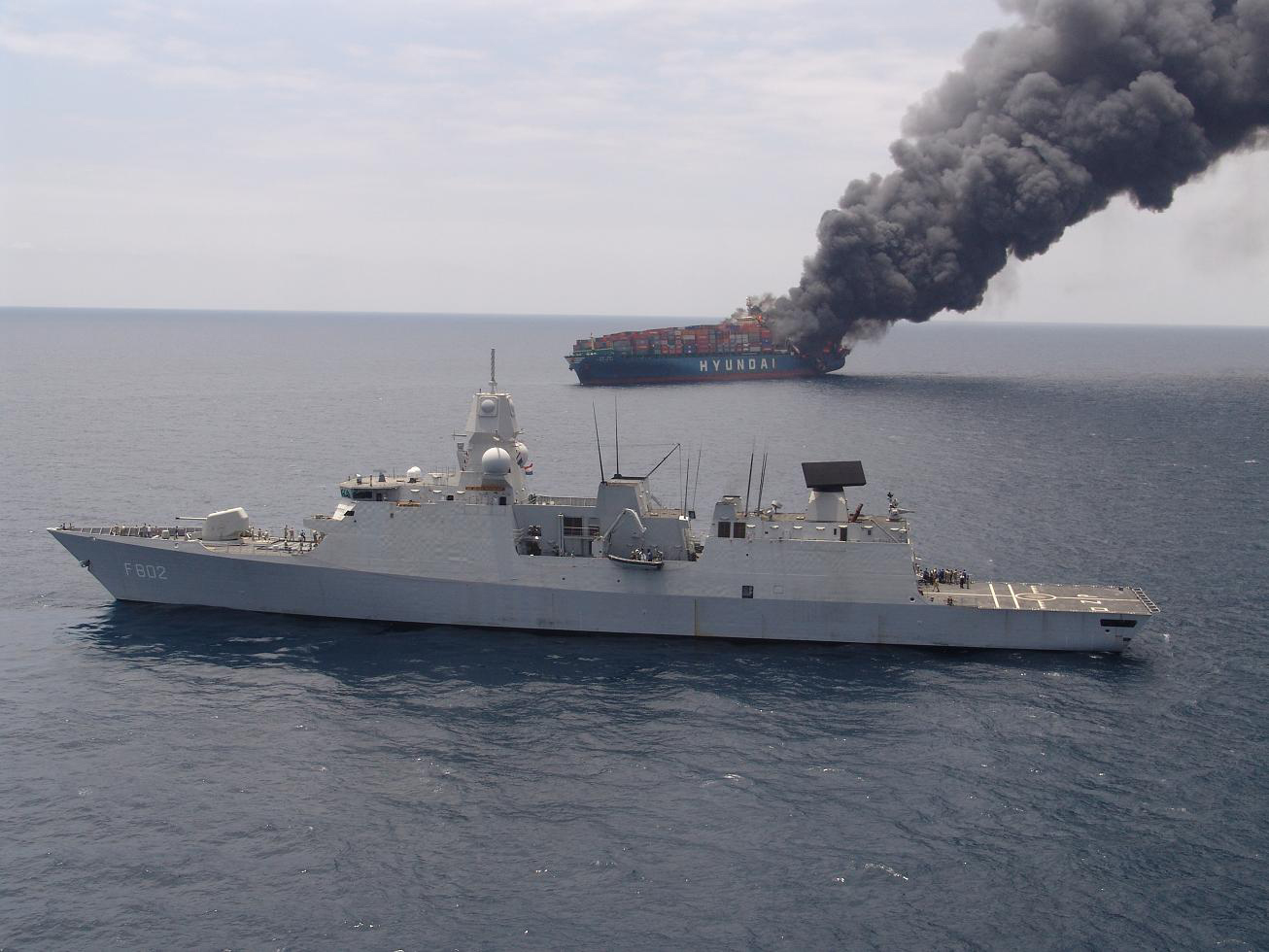 Hr.Ms. De Zeven Provinciën helps the Hyundai Fortune